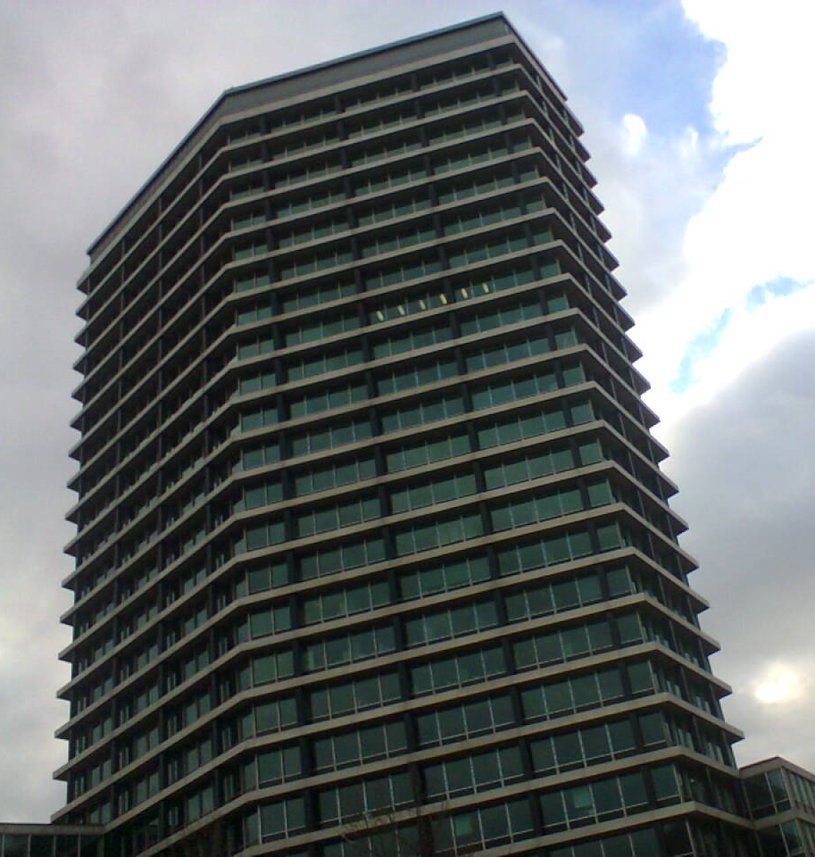 Generali or Louise or Louiza tower/Tour Louise/Louizatoren-Generalitoren, Avenue Louise/Louizalaan, Bruxelles/Brussel